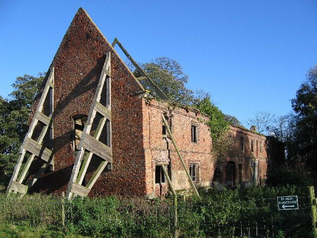 Watton Abbey, Watton, East Riding of Yorkshire, England - Barn.This large barn type building is just a short distance north of the Abbey. Access to see this is through the church grounds and across the pasture.